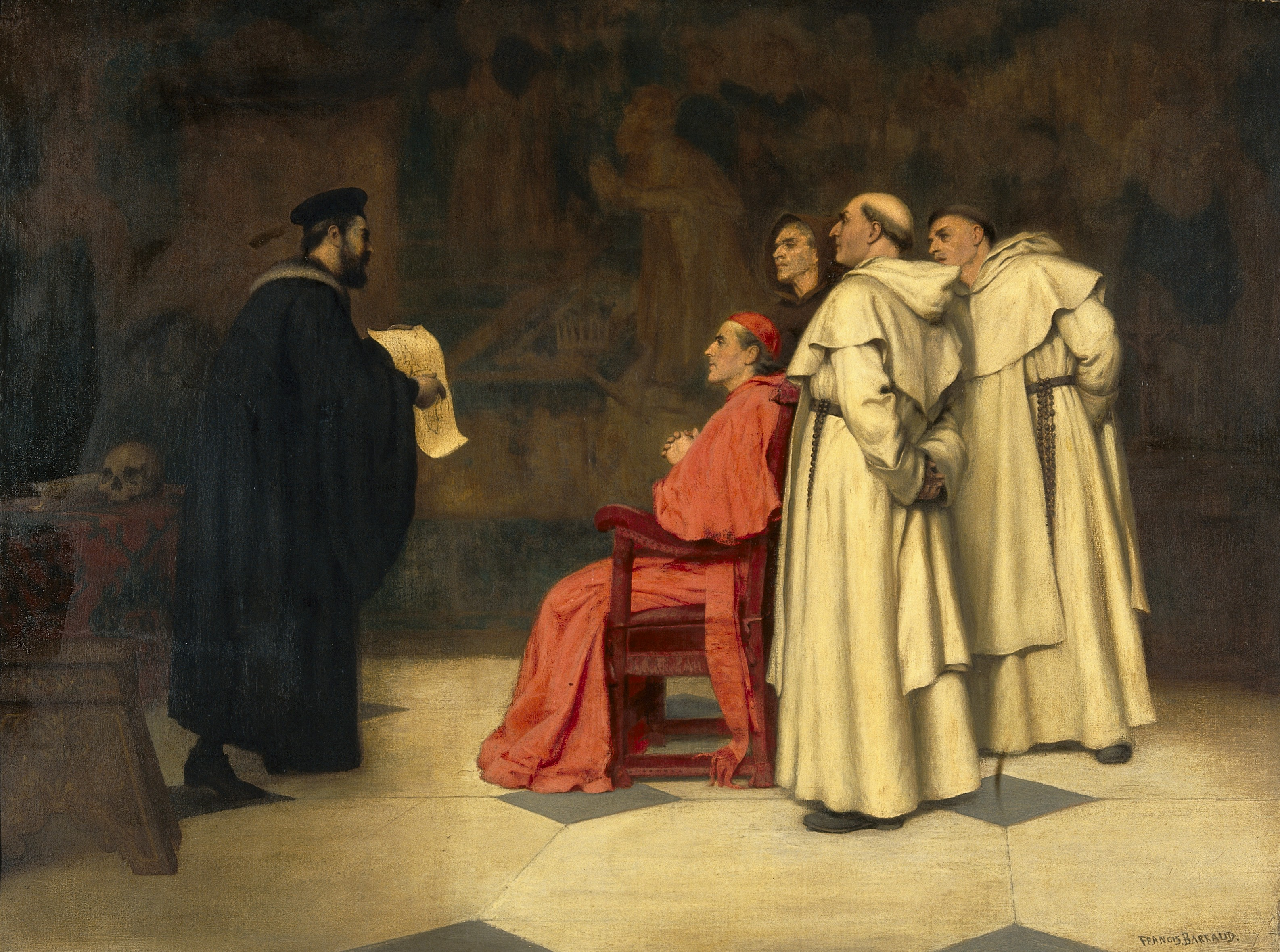 "Gabriel Falloppius explaining one of his discoveries to the Cardinal Duke of Ferrara". Oil painting by Francis James Barraud. Iconographic Collections Keywords: Francis James Barraud